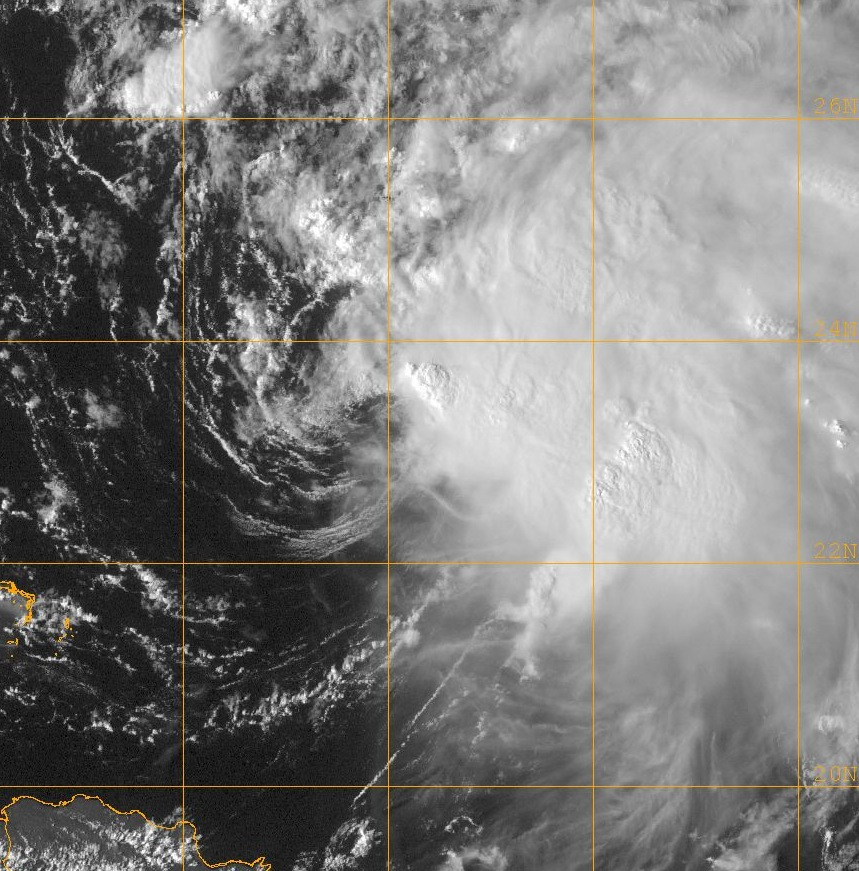 Tropical Storm Kyle right before its first advisory.